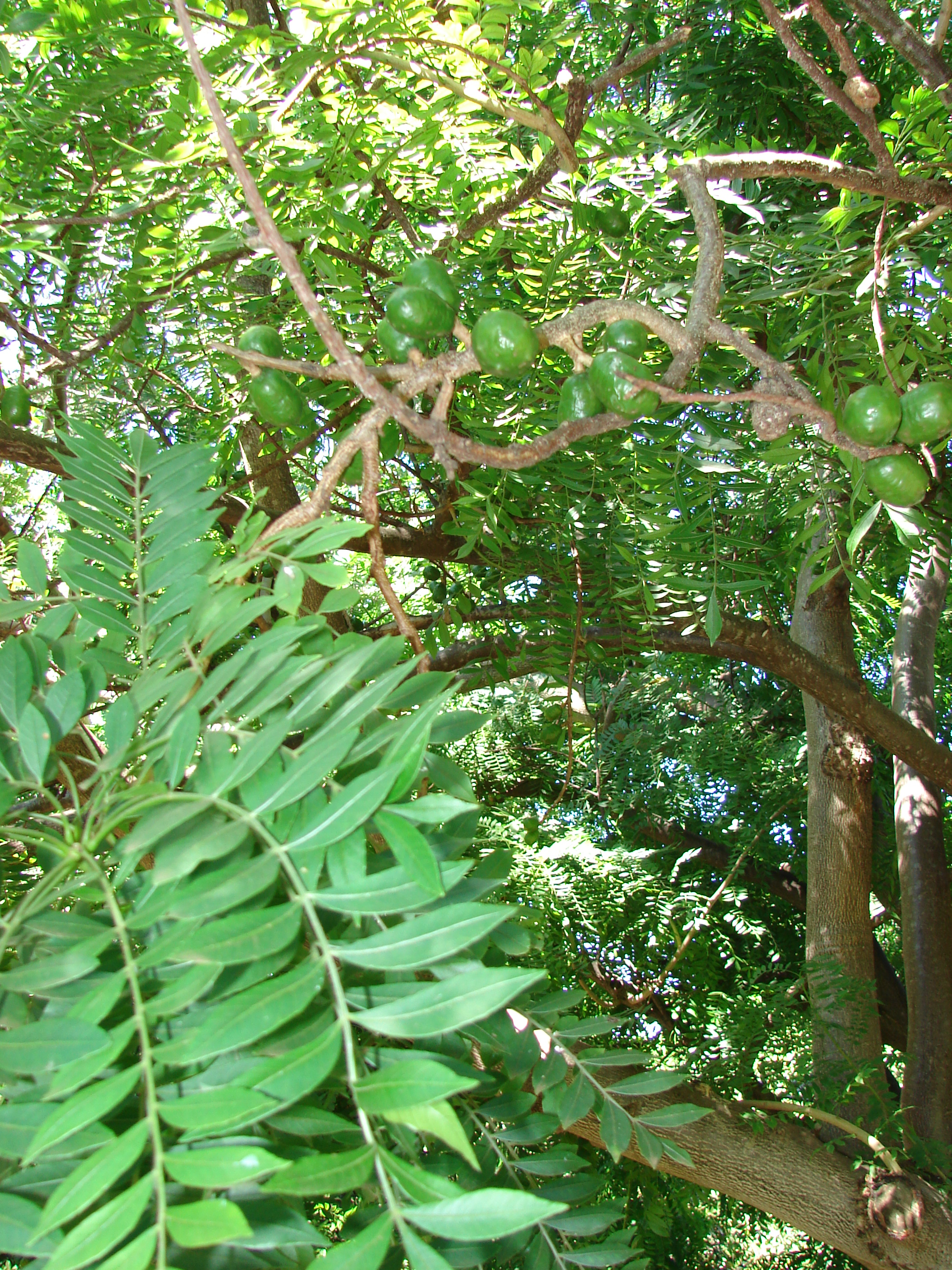 Spondias mombin (fruit and leaves). Location: Maui, Enchanting Floral Gardens of Kula